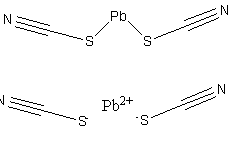 Lead(II)Thiocyanate in compound (top) and salt (bottom) form.